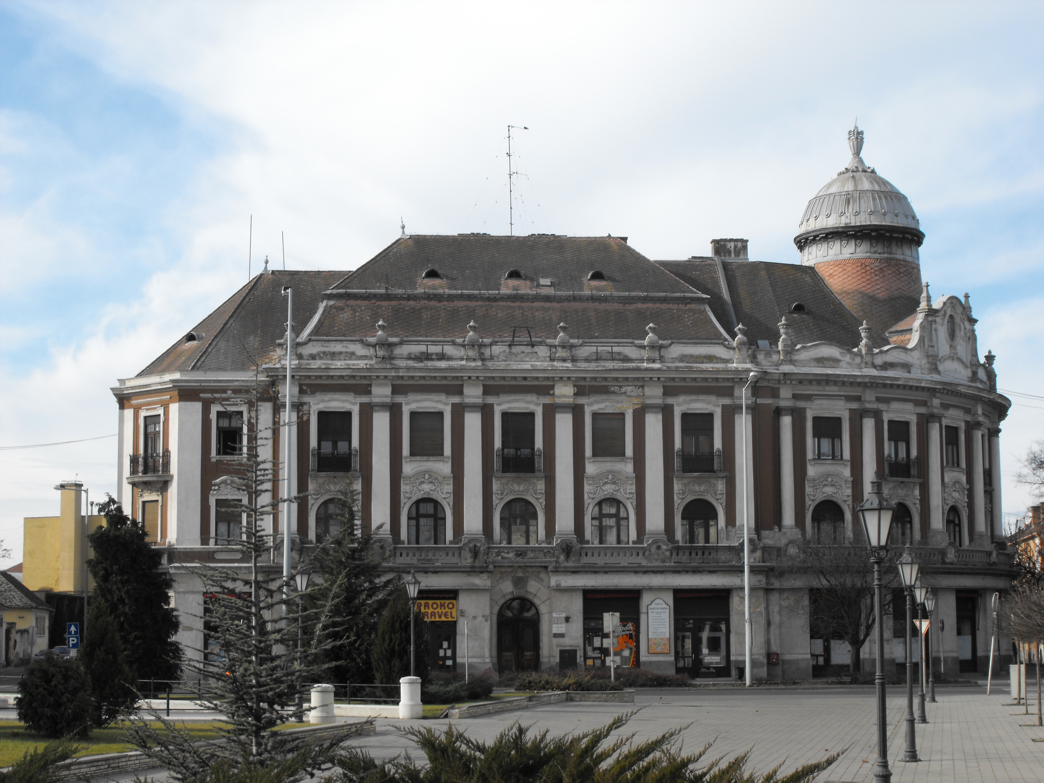 The neo-baroque "Palace of Tenants" in Makó, Hungary.